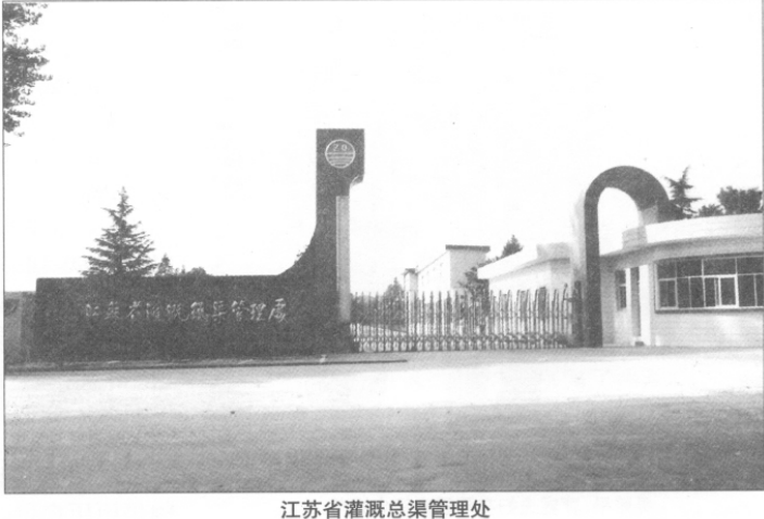 This picture is a screen shot of the electronic academic journal--"蘇北灌溉總渠工程介紹".